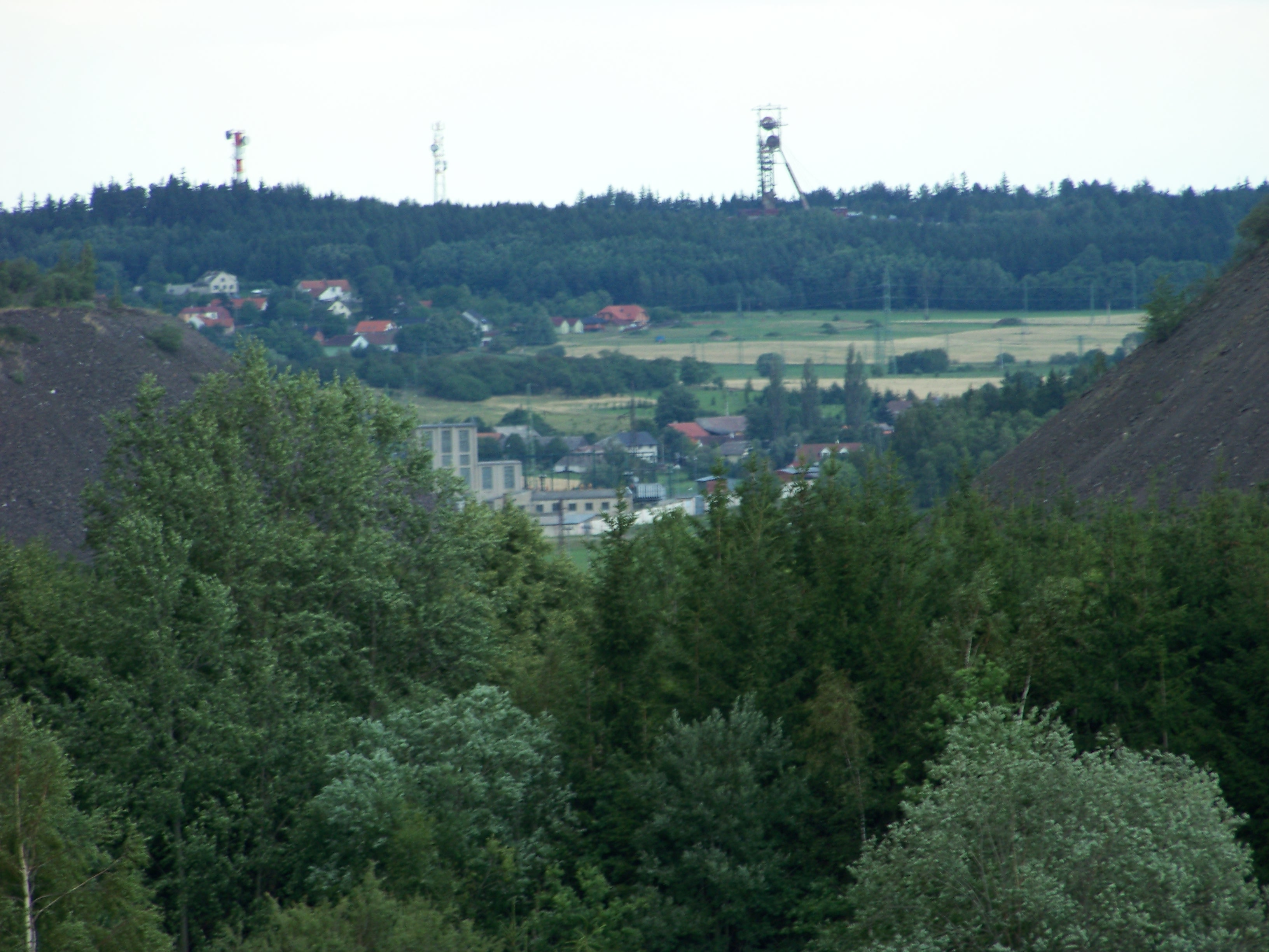 Příbram, Příbram District, Central Bohemian Region, the Czech Republic. A view from Vojna to Jerusalem and Háje, slag heaps in Příbram-Brod and Lešetice. - OpenStreetMap(Info)